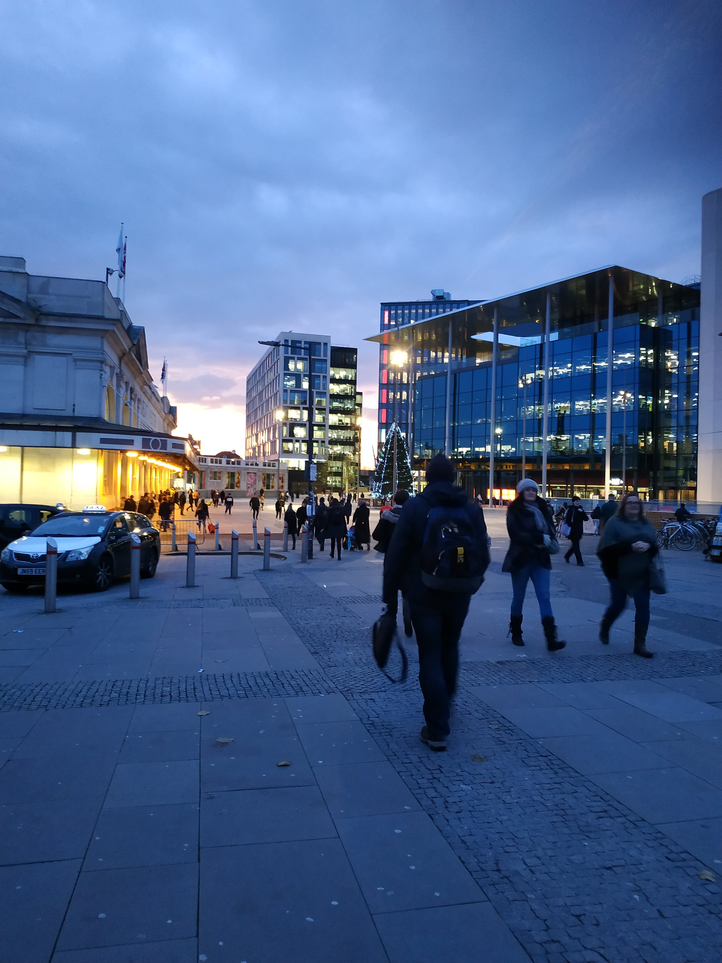 Square outside Cardiff central in the run up to Christmas 2019 the train station and other fairly impressive buildings can be seen